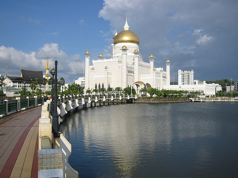 Mosque in the centre of Bandar Seri Begawan (BSB) capital of Negara Brunei Darussalam